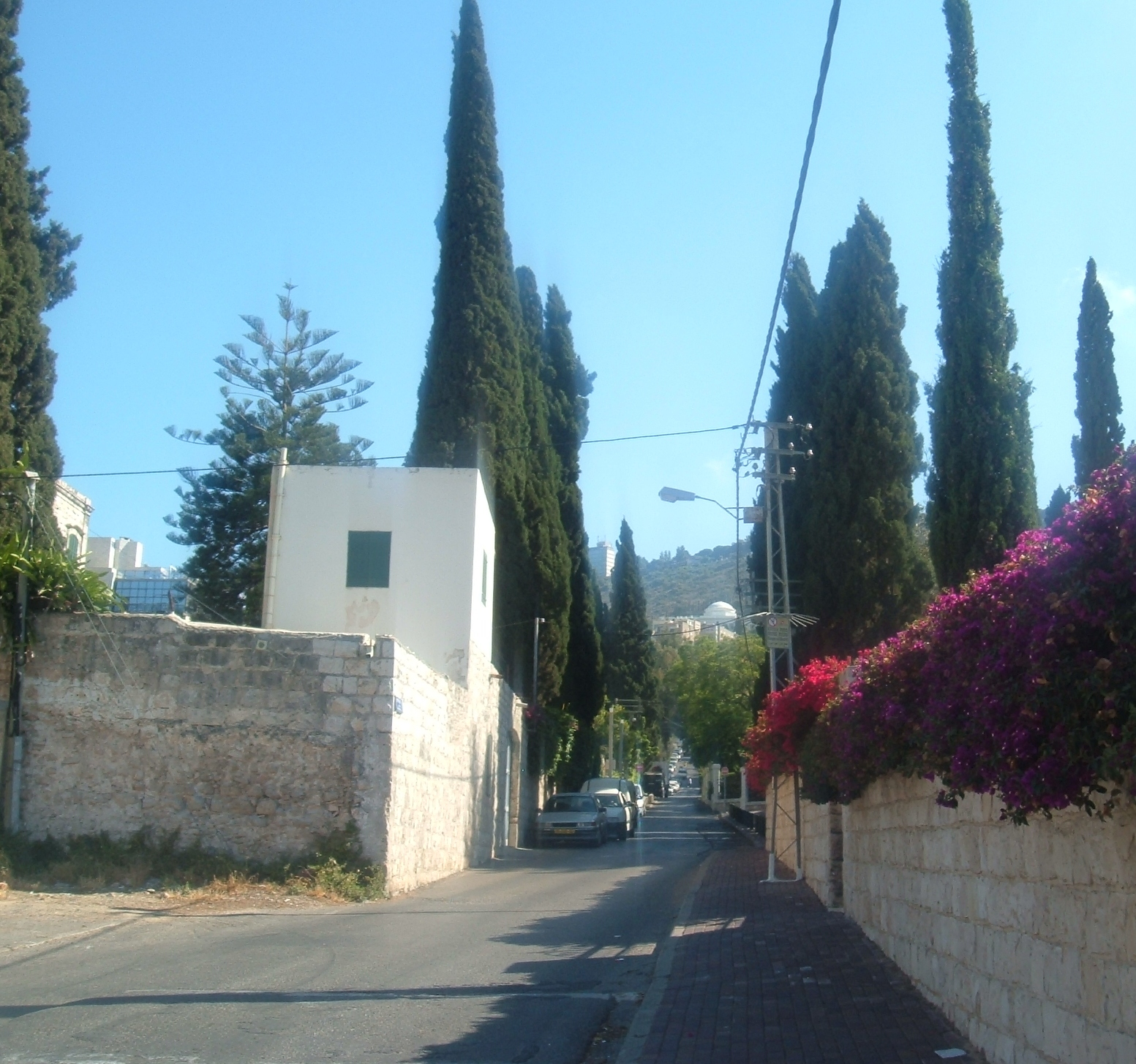 Haparsim st. in Wadi Nisnas, Haifa רחוב הפרסים בואדי ניסנאס, חיפה